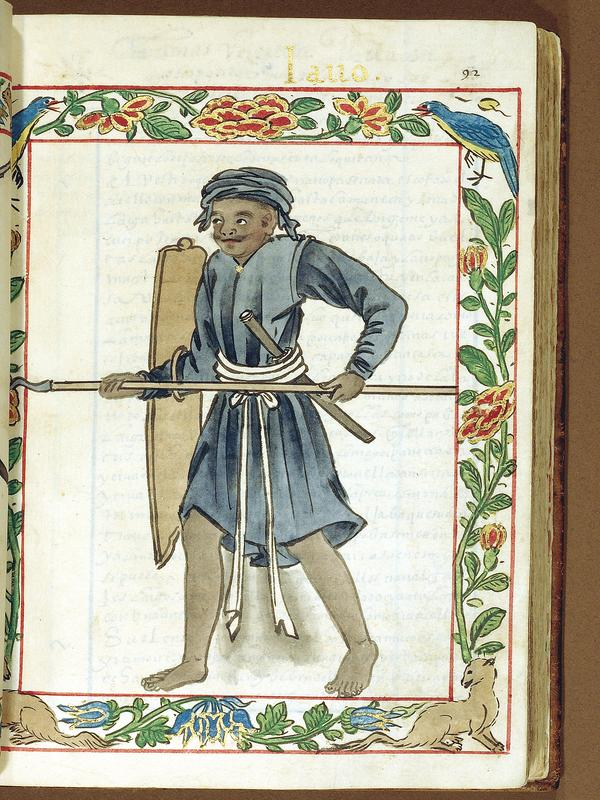 Javanese Warrior with a spear and shield from Java Island